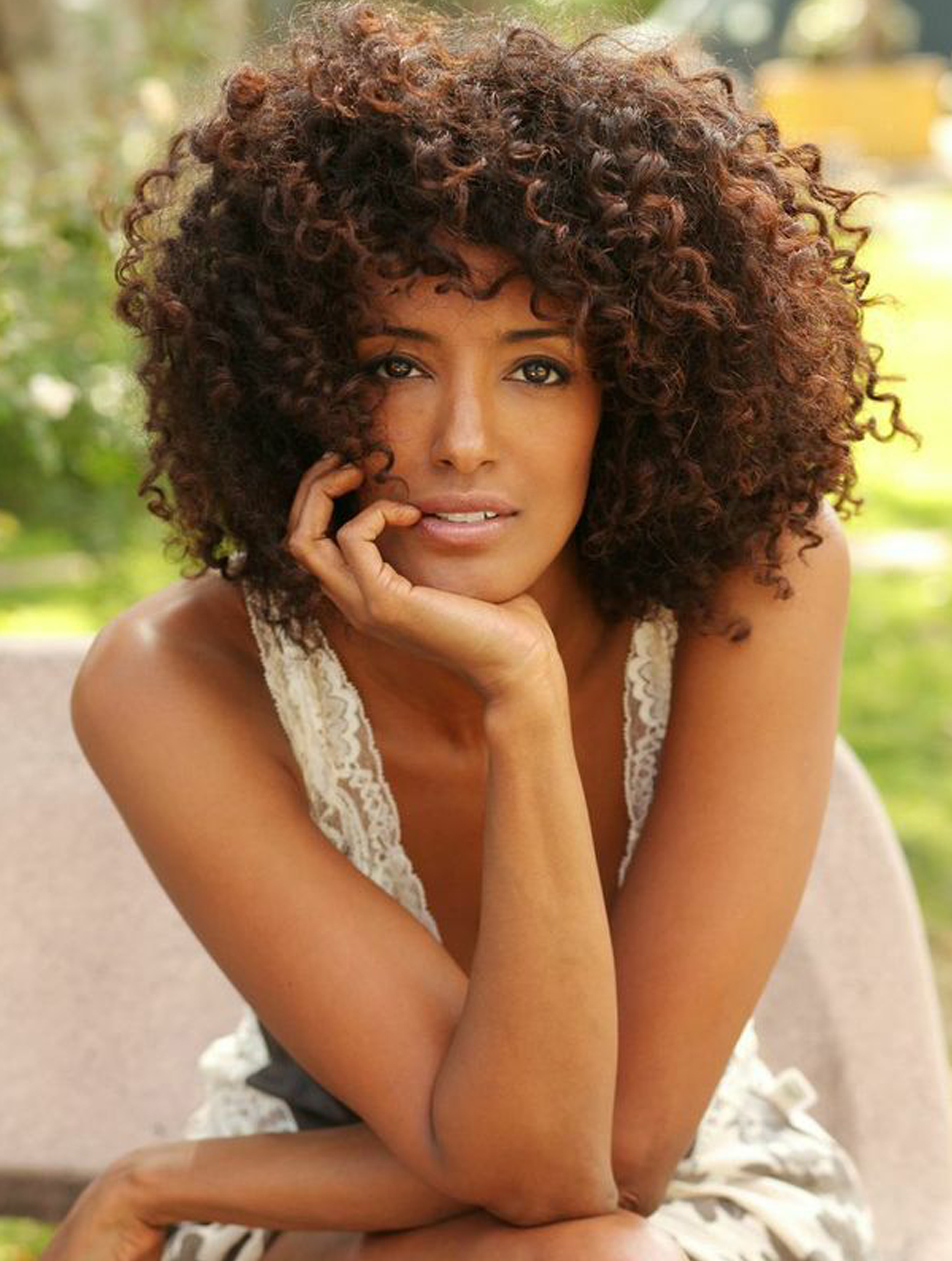 Official Headshot